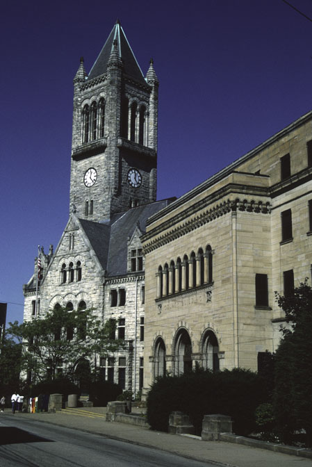 Front of the Fayette County Courthouse, located at 61 E. Main Street in Uniontown, Pennsylvania, United States. Built in 1892, it is part of the Uniontown Downtown Historic District, which is listed on the National Register of Historic Places.